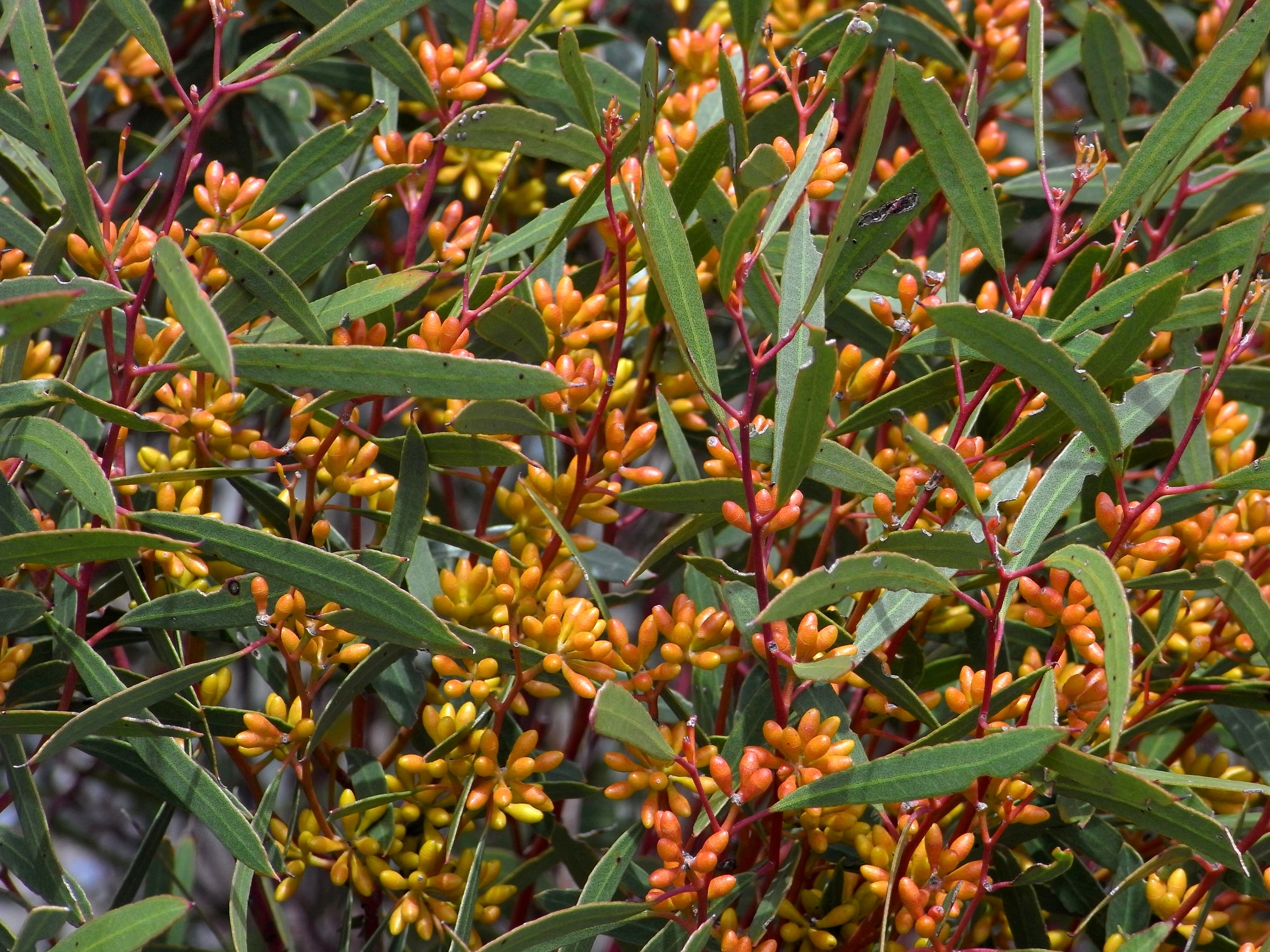 Foliage and flower buds of Eucalyptus leptophylla from a plant in the Big Desert Wilderness Area